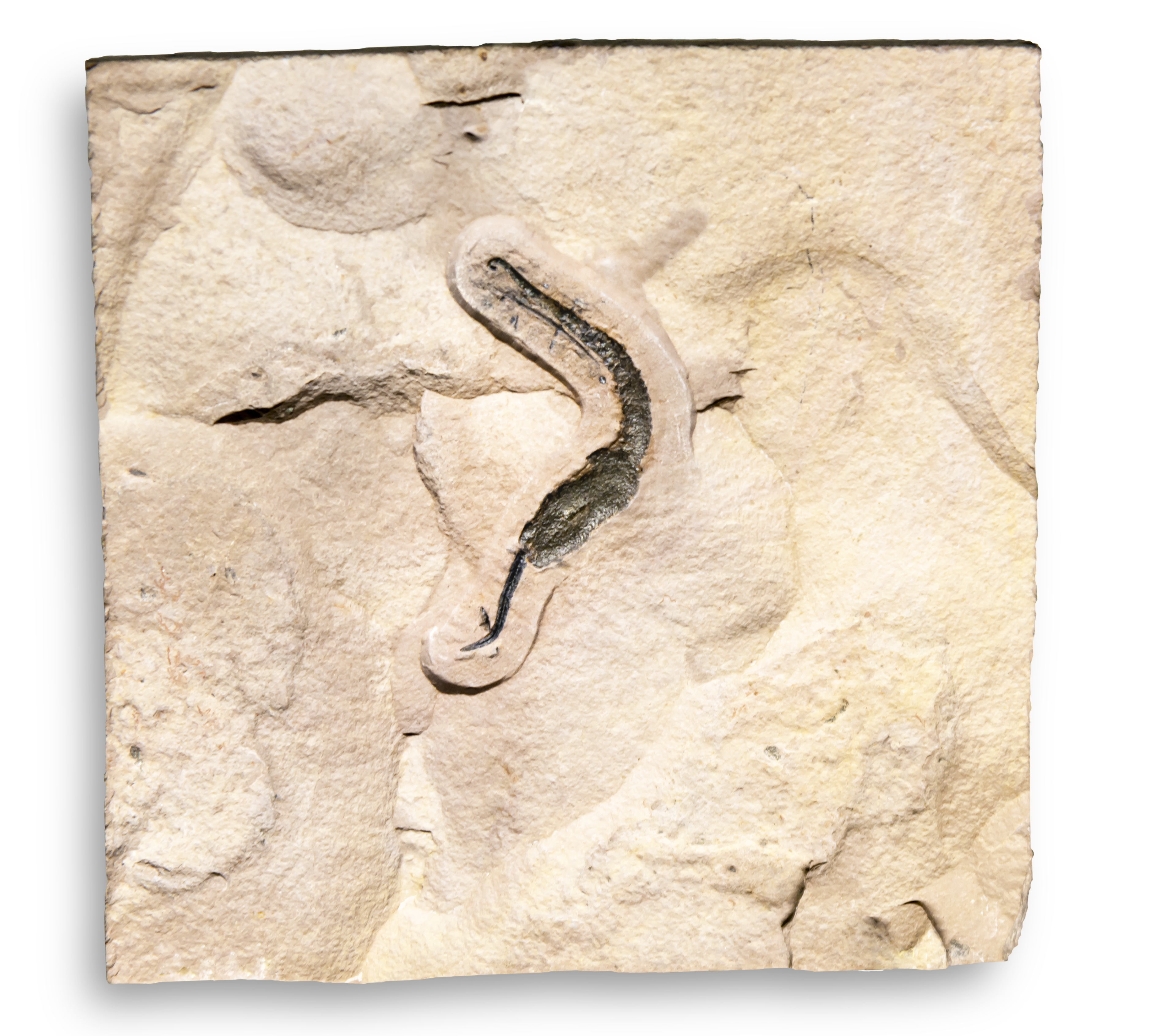 Castericystis sprinklei, complete animal, pyrite fossilization. Early/Middle Cambrian (~520 million years ago)